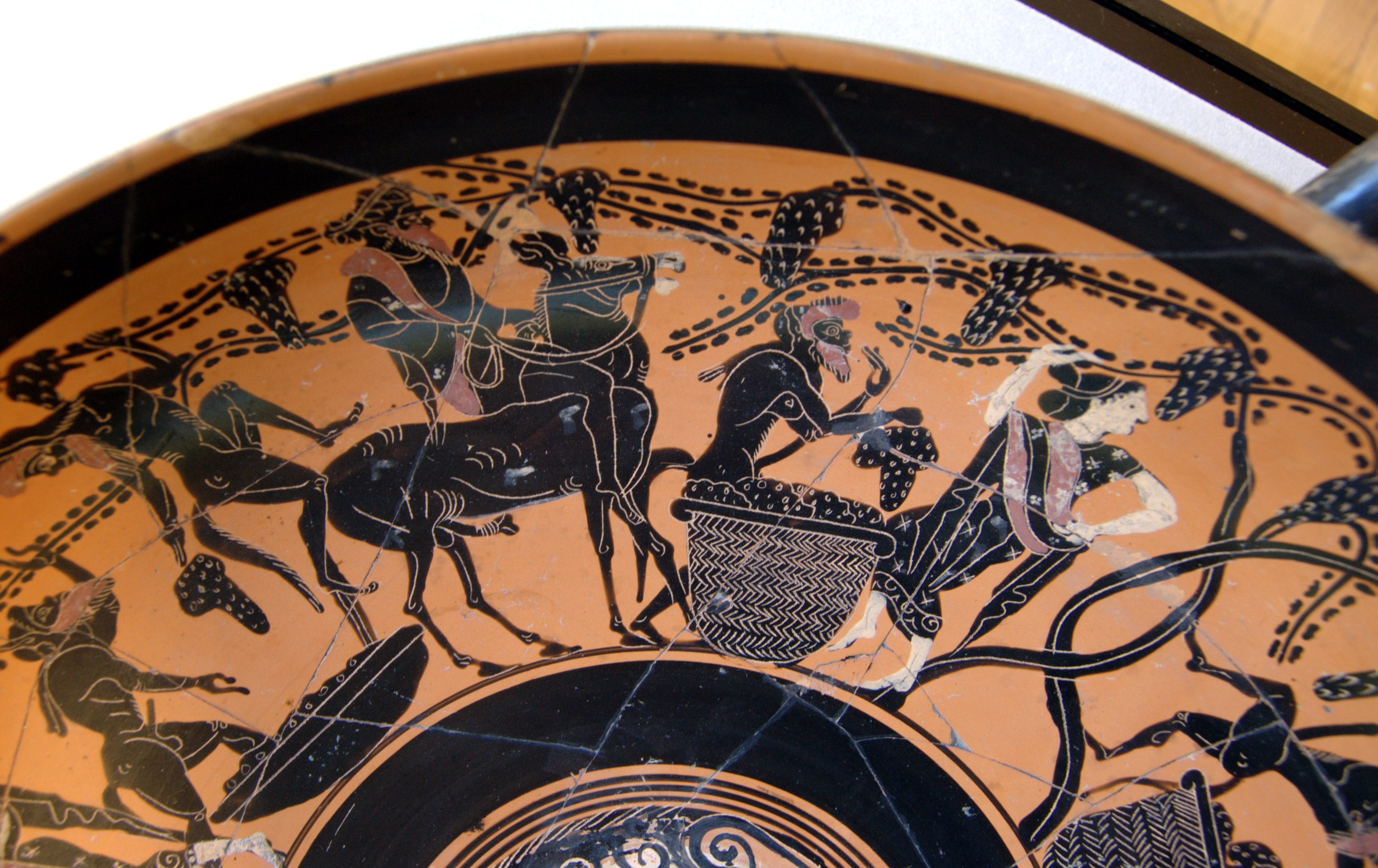 Vintage by sileni and maenads. Attic black-figure cup, end of 6th century BC.